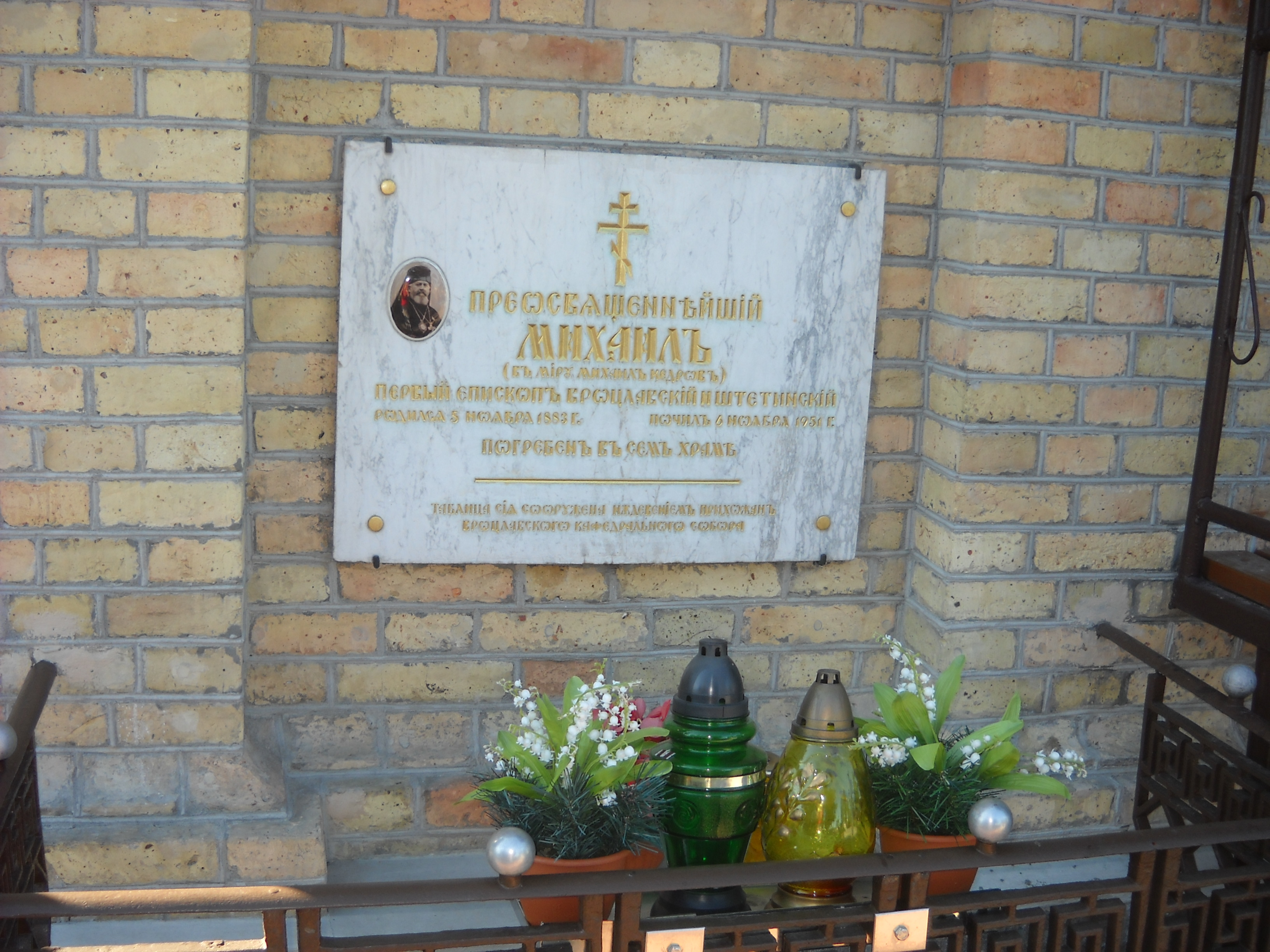 Plaque commemorating Michael Bishop (Kedrov) on the wall of the church of All Saints in Bialystok